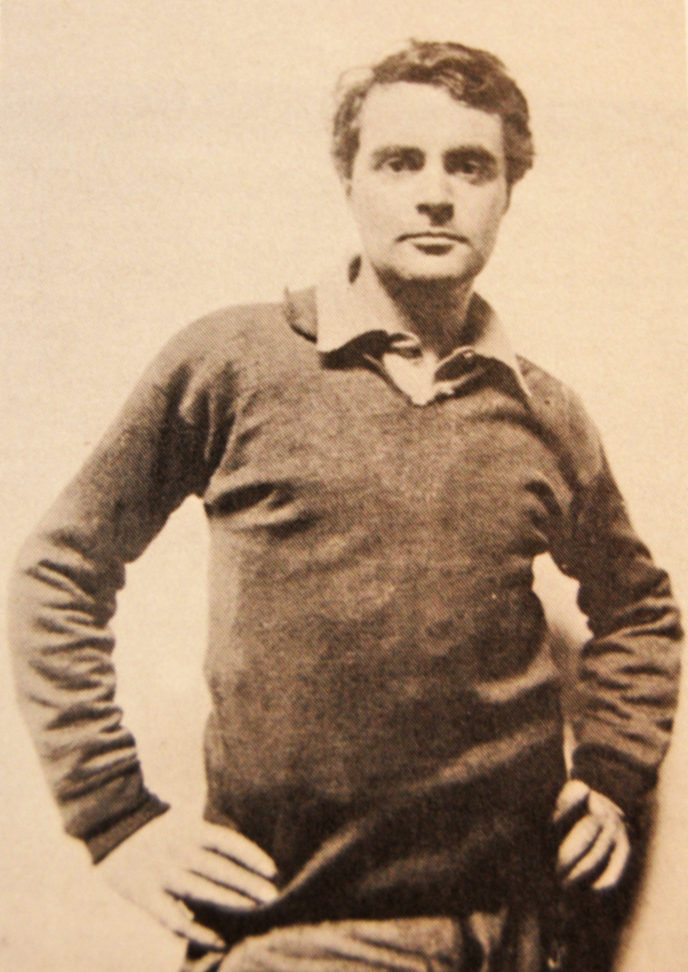 Amedeo Modigliani at Nice in 1918